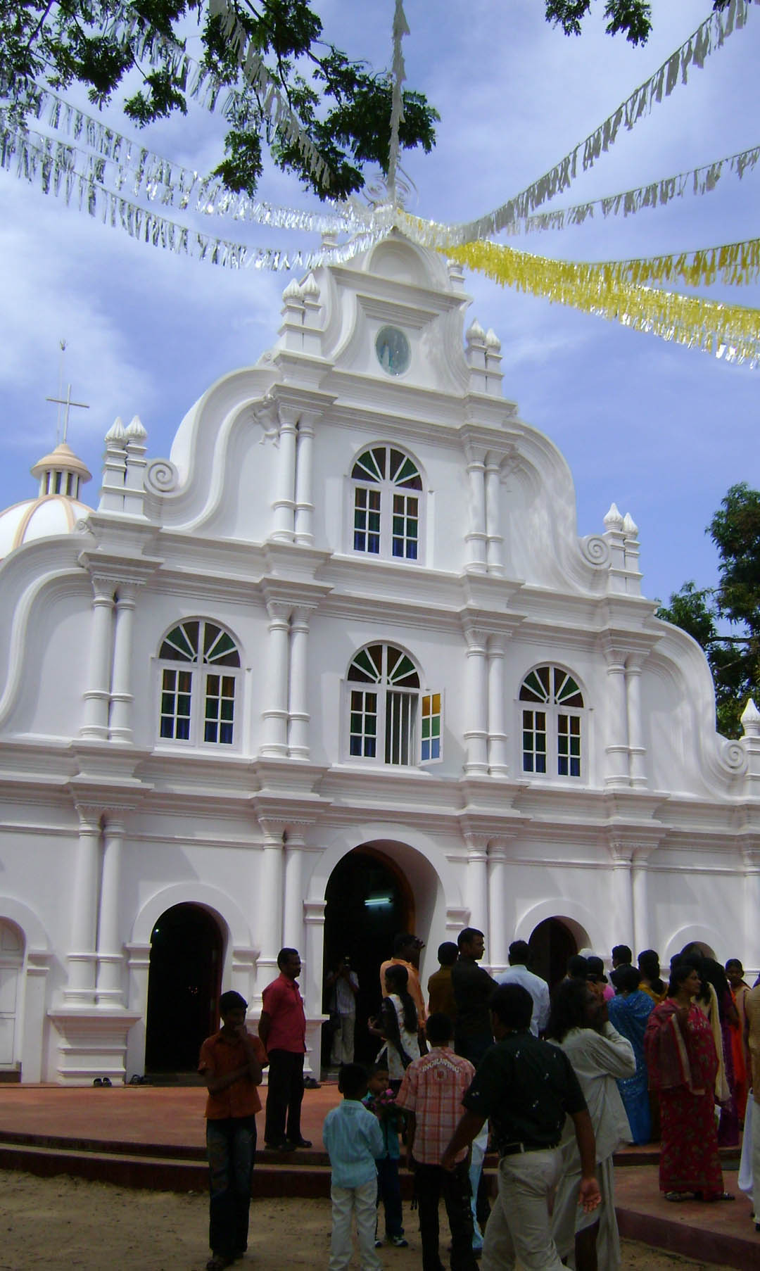 The Latin catholic Church in Kumbalangi tourist village , Cochin.